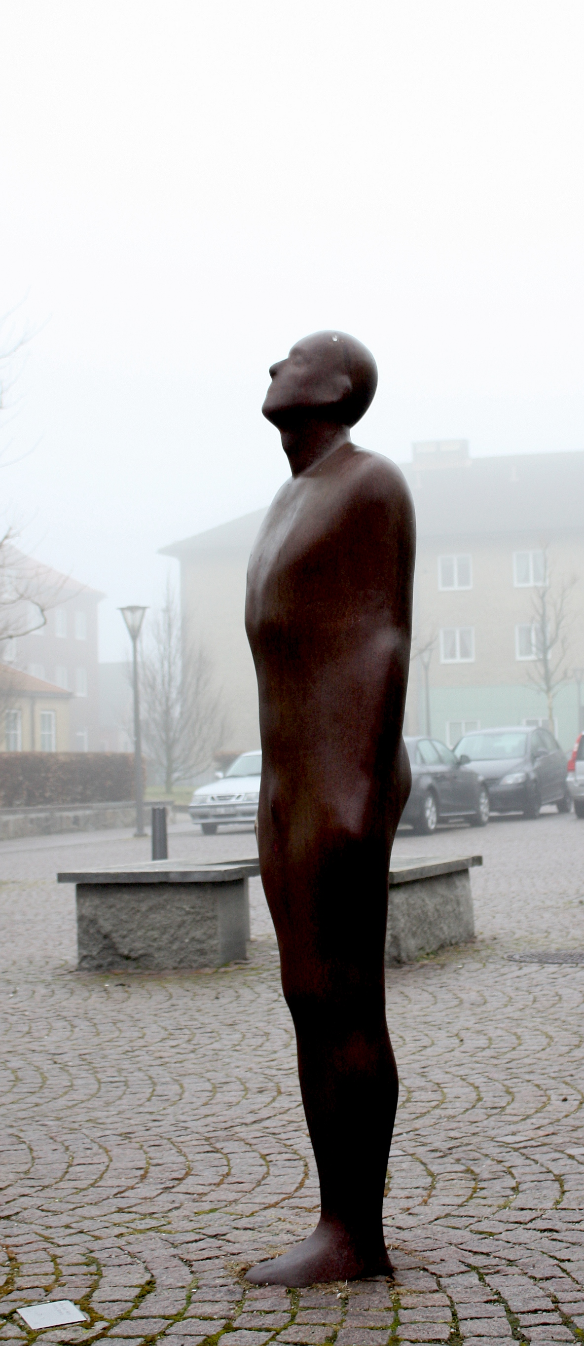 Here and Here Antony Gormley